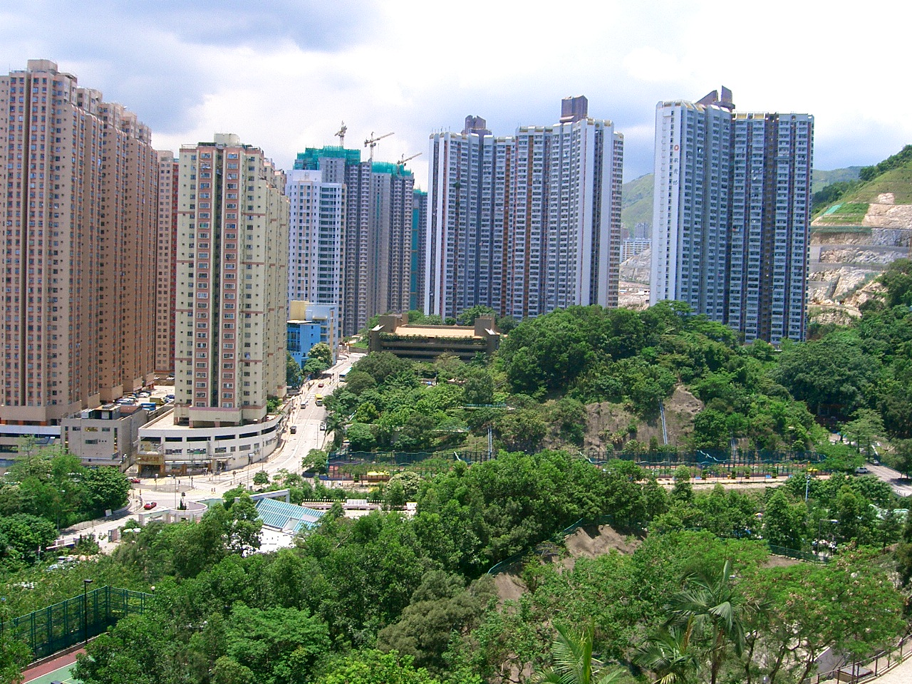 Full view of Choi Ha Road in 2007